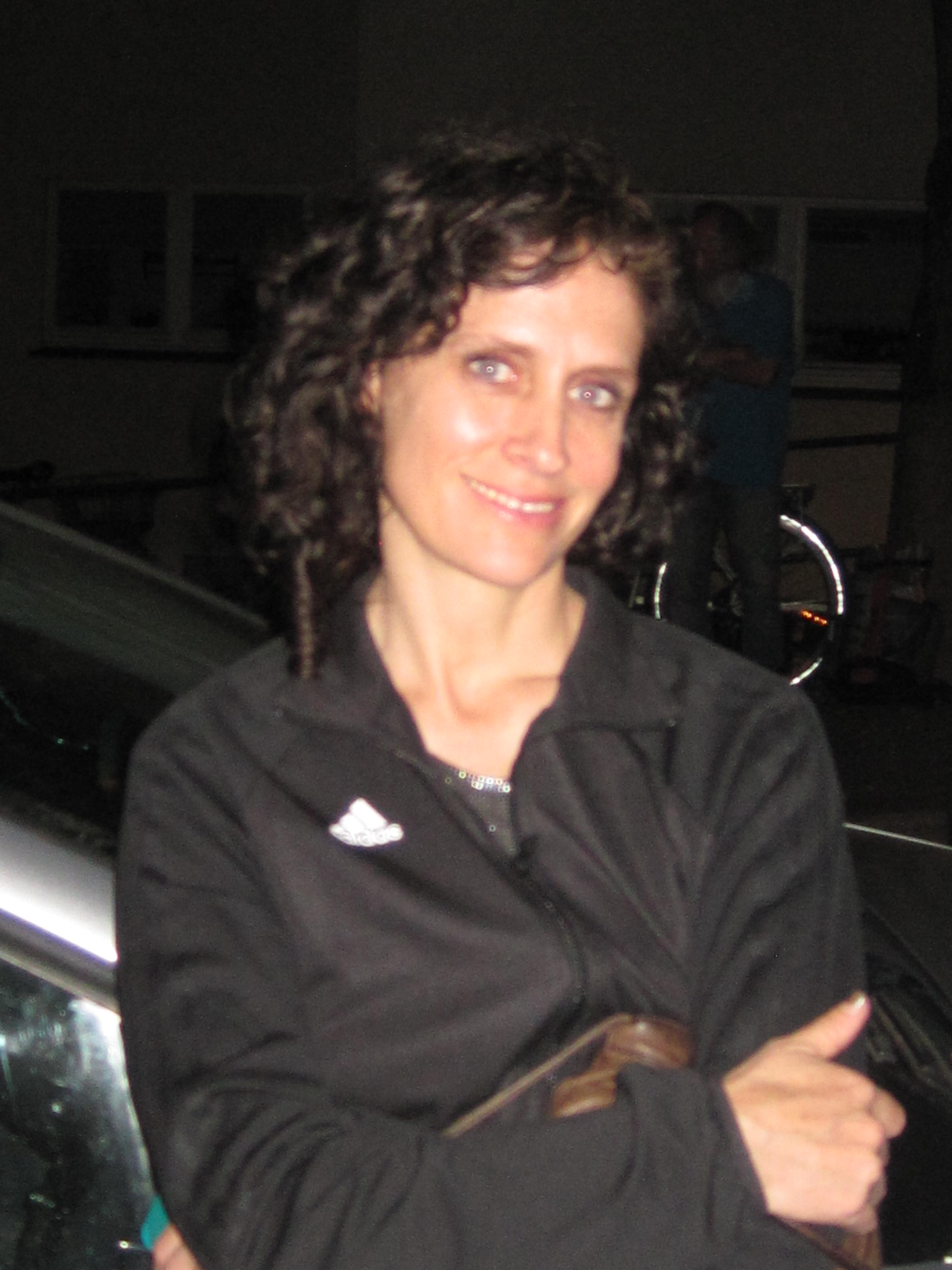 Jazz violinist Jenny Scheinman after concert at jazz club Cavete in Marburg, Germany, may 2018.